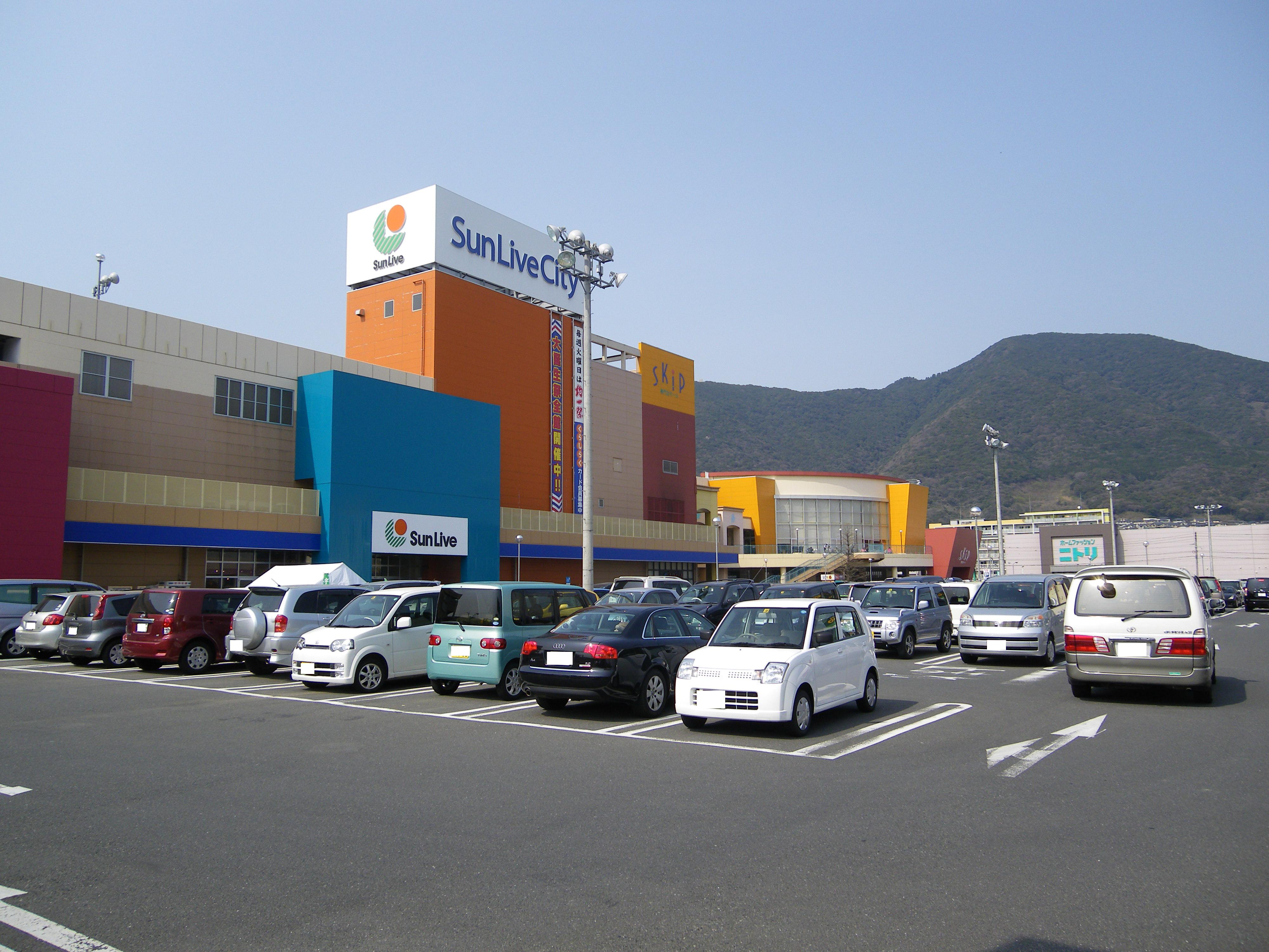 SunLive City Kokura